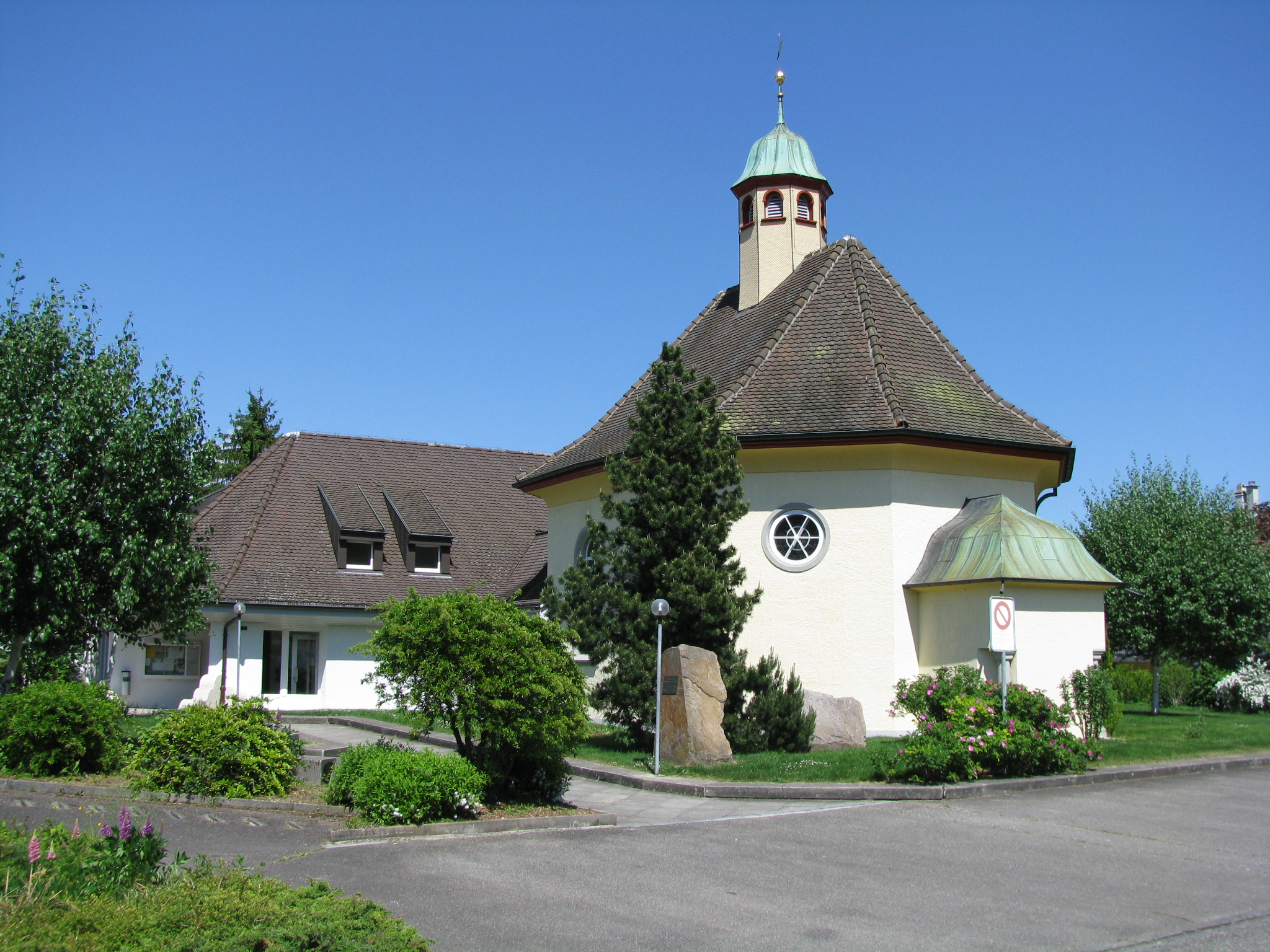 Reformed Church in Stein, Aargau